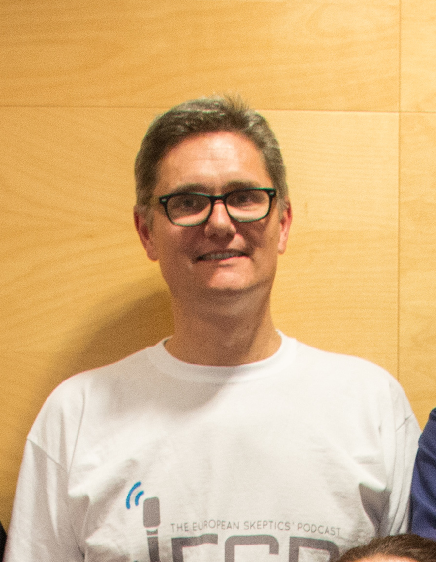 The new board, at the meeting of the European Council of Skeptical Organisations, 24 September 2017. Back row, from left to right: Catherine de Jong (VtdK), Paola De Gobbi (CICAP), Pontus Böckman (VoF), Amardeo Sarma (GWUP), András Gábor Pintér (SzT). Front row, from left to right: Michael Heap (ASKE), Tim Trachet (SKEPP), Claire Klingenberg (CKS Sisyfos), Leon Korteweg (DVG).